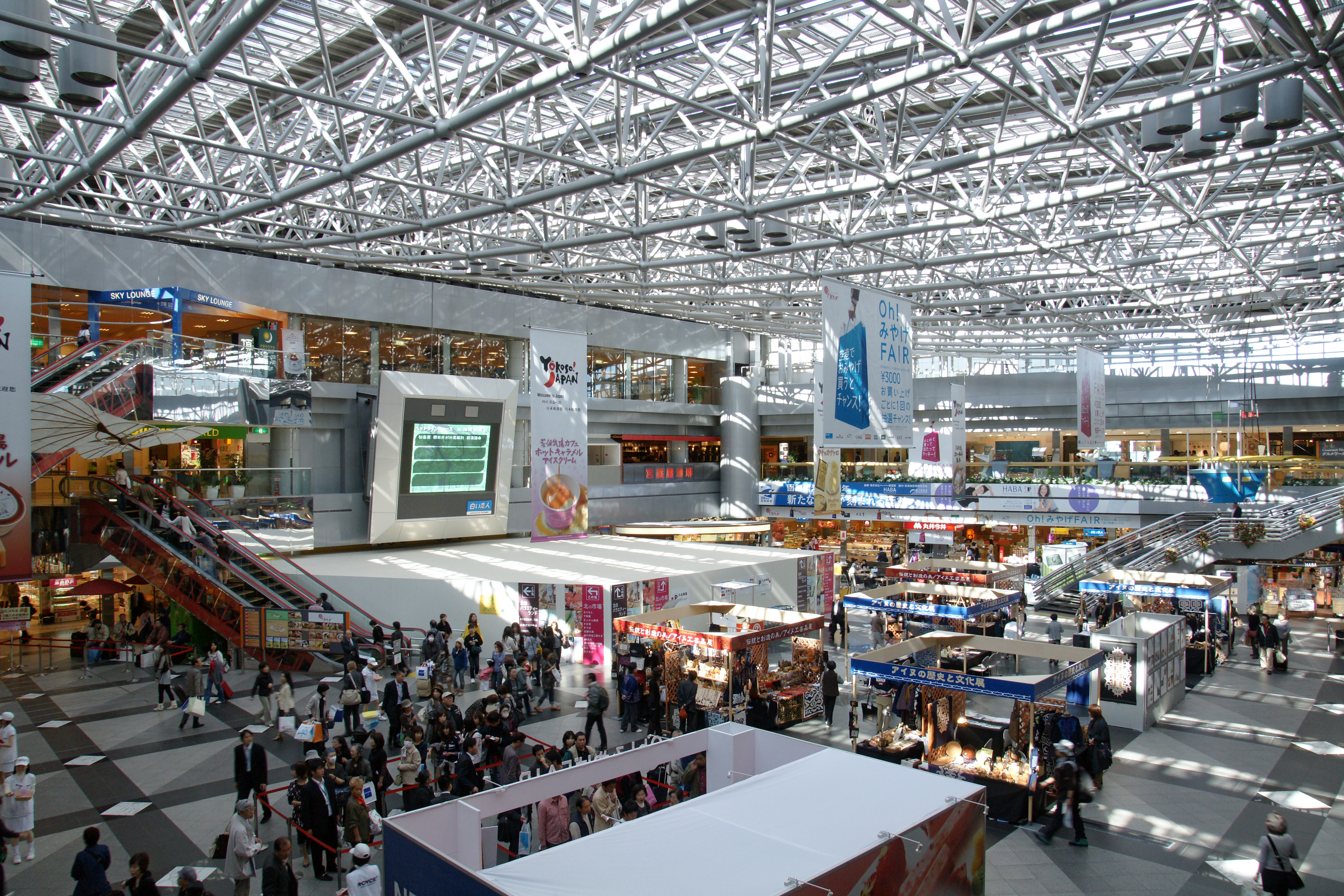 New Chitose Airport, Chitose, Hokkaido prefecture, Japan